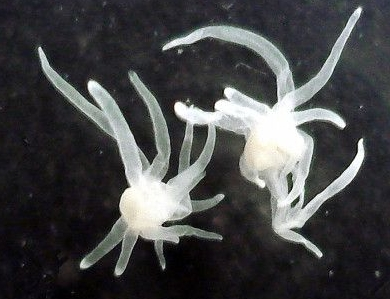 Two specimens of Polypodium hydriforme.